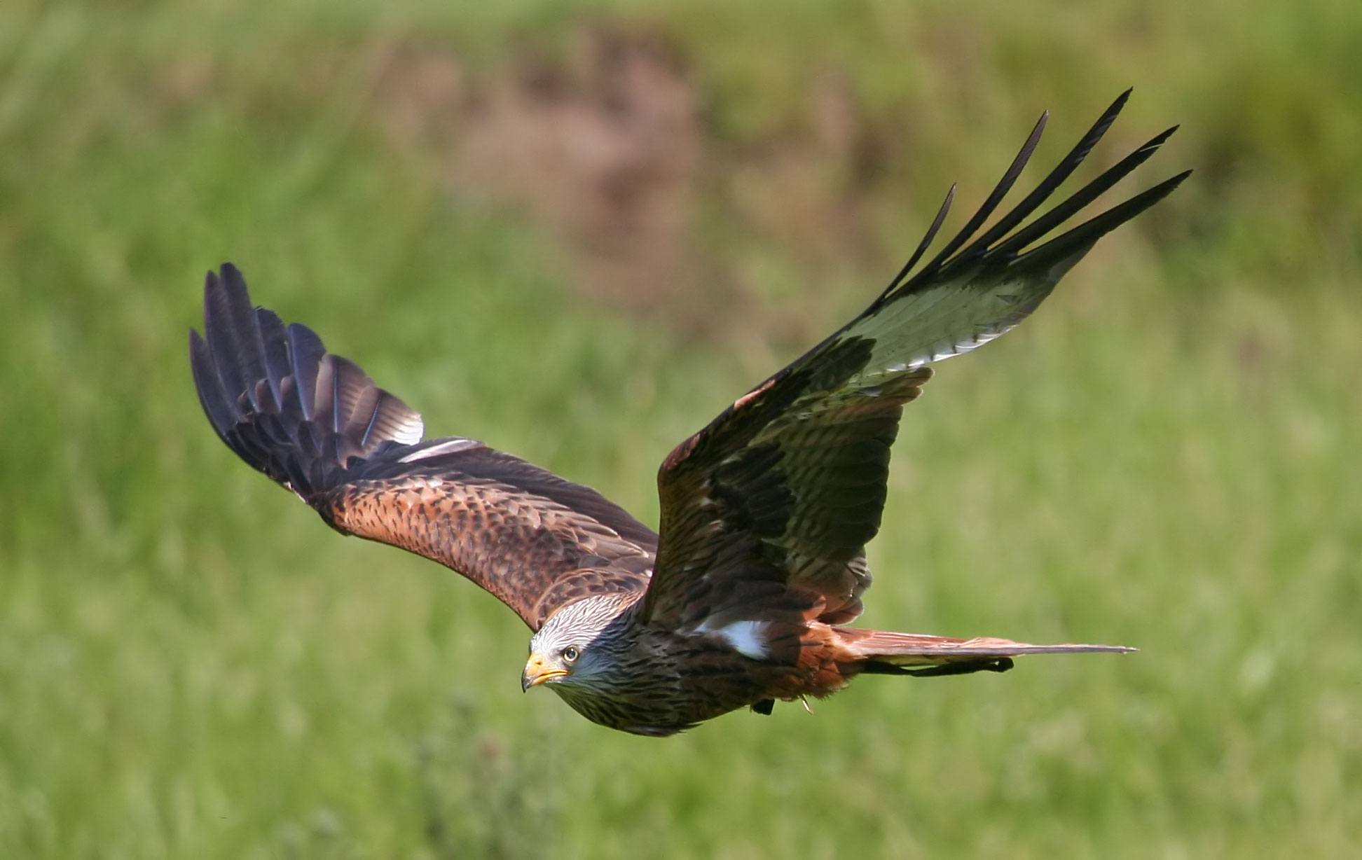 Flying Falcon Red Kite Dysmorodrepanis 00:36, 13 August 2007 (UTC)